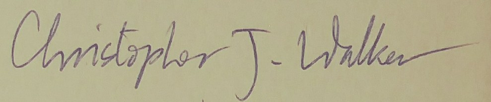 Christopher Walker's signature, cropped from this image